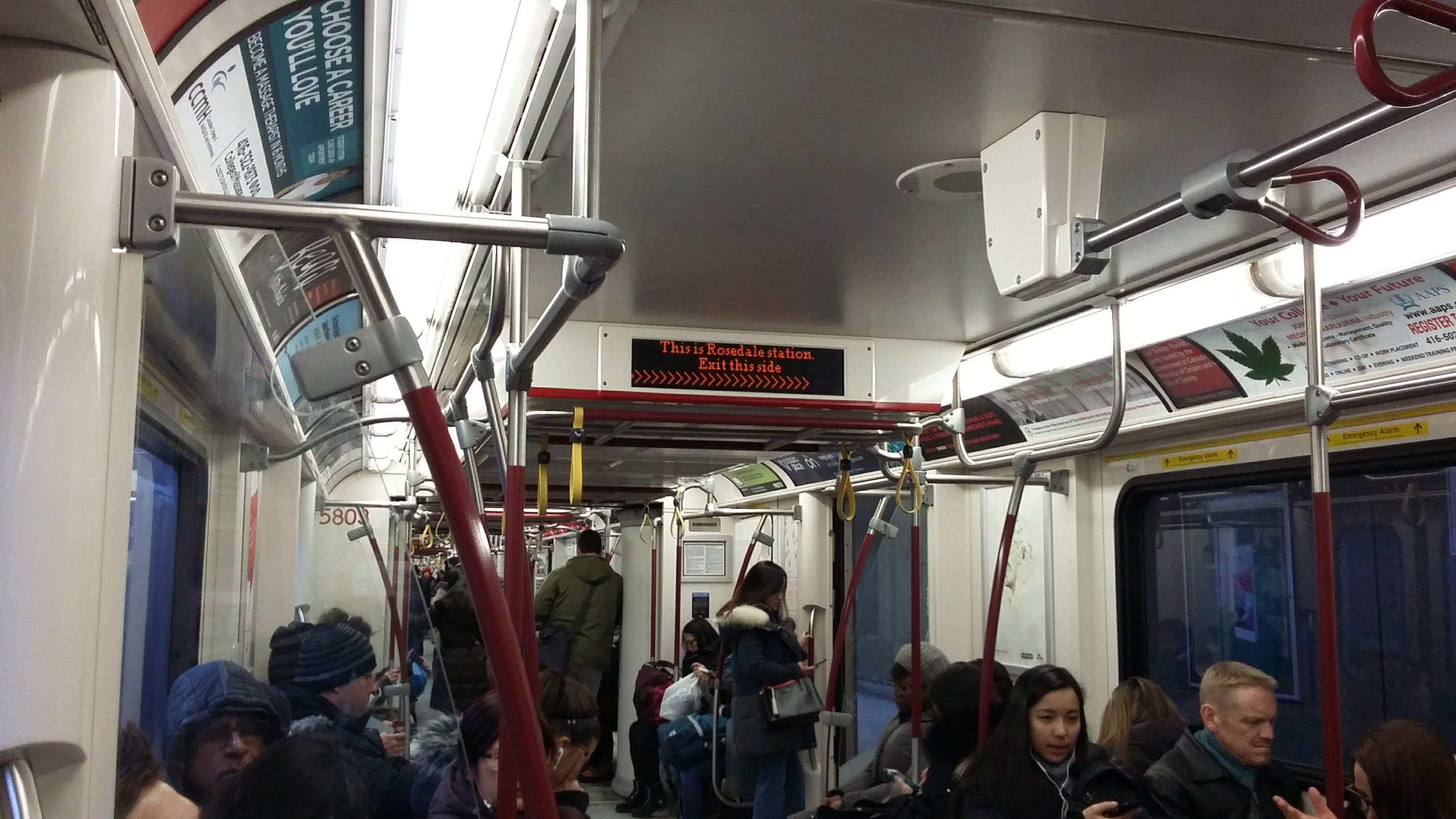 Daily-breaders on the daily grind.